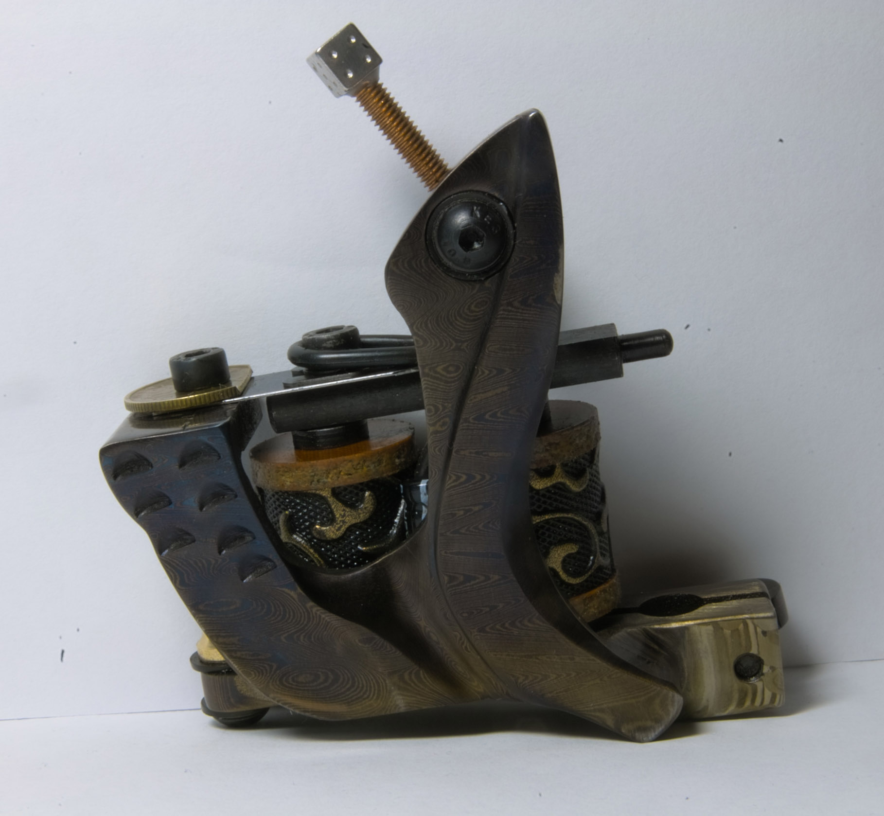 Description: Contour tattoo machine made ​​of Damascus steel is very high quality and reliable. Through concise forms with thick metal meets professional standards. One of the favorite models of professionals for those who understand why light little car is intended for circuits 1-7. Steel frame, form a favorable effect on vibration damping. It is recommended to apply for the PM. Due to its ease for girls tattooists.